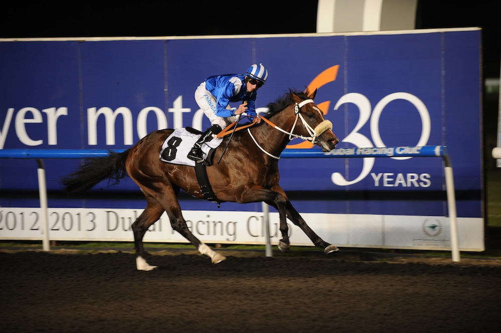 Soft Falling Rain wins 2013 UAE 2000 Guineas.